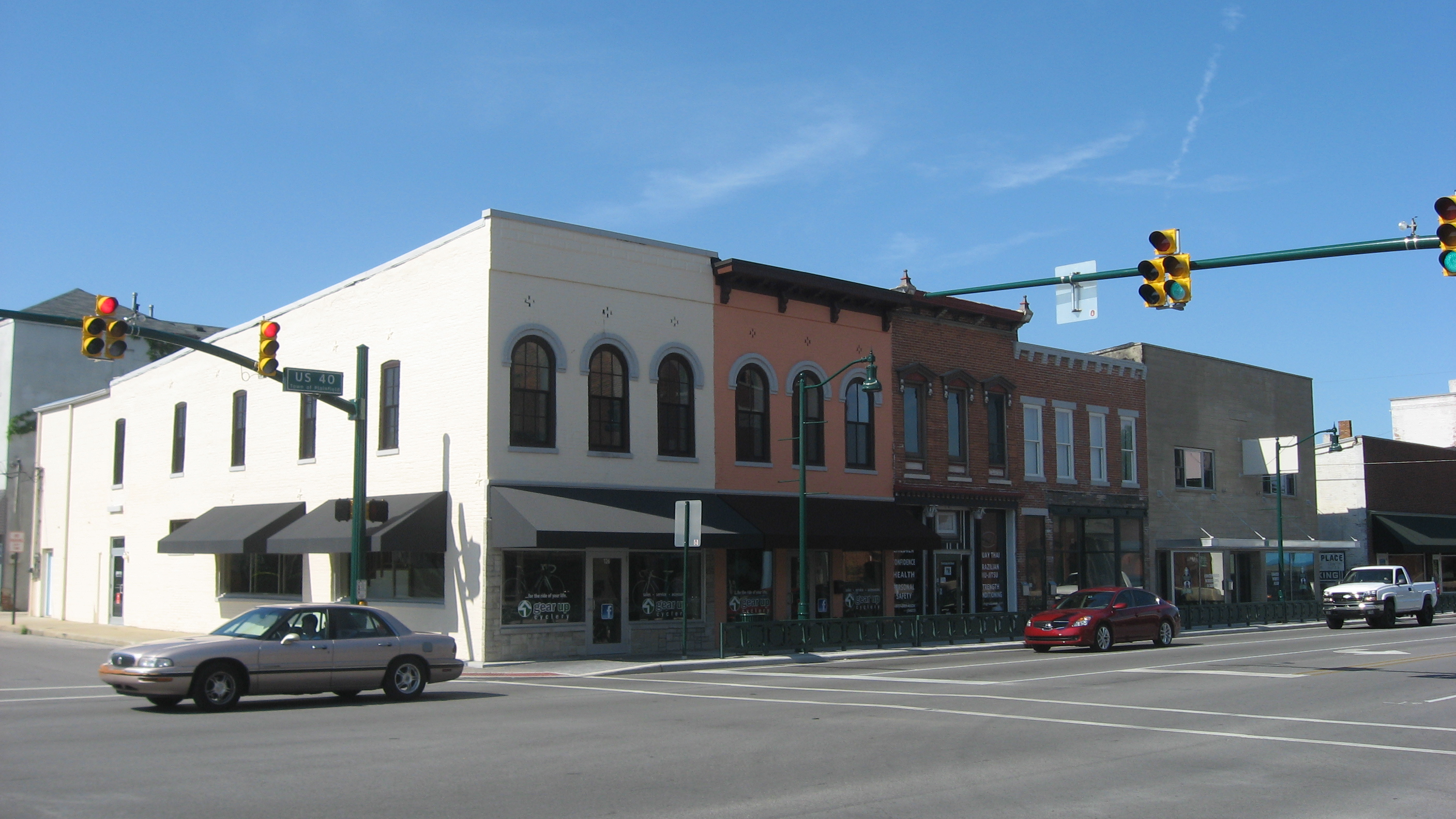 Buildings on the northern side of Main Street (U.S. Route 40) just east of its intersection with Center Street in downtown Plainfield, Indiana, United States. This block is part of the Plainfield Historic District, a historic district that is listed on the National Register of Historic Places.